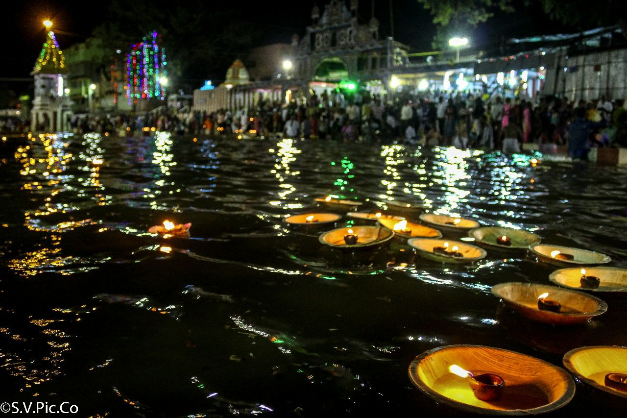 Lamps